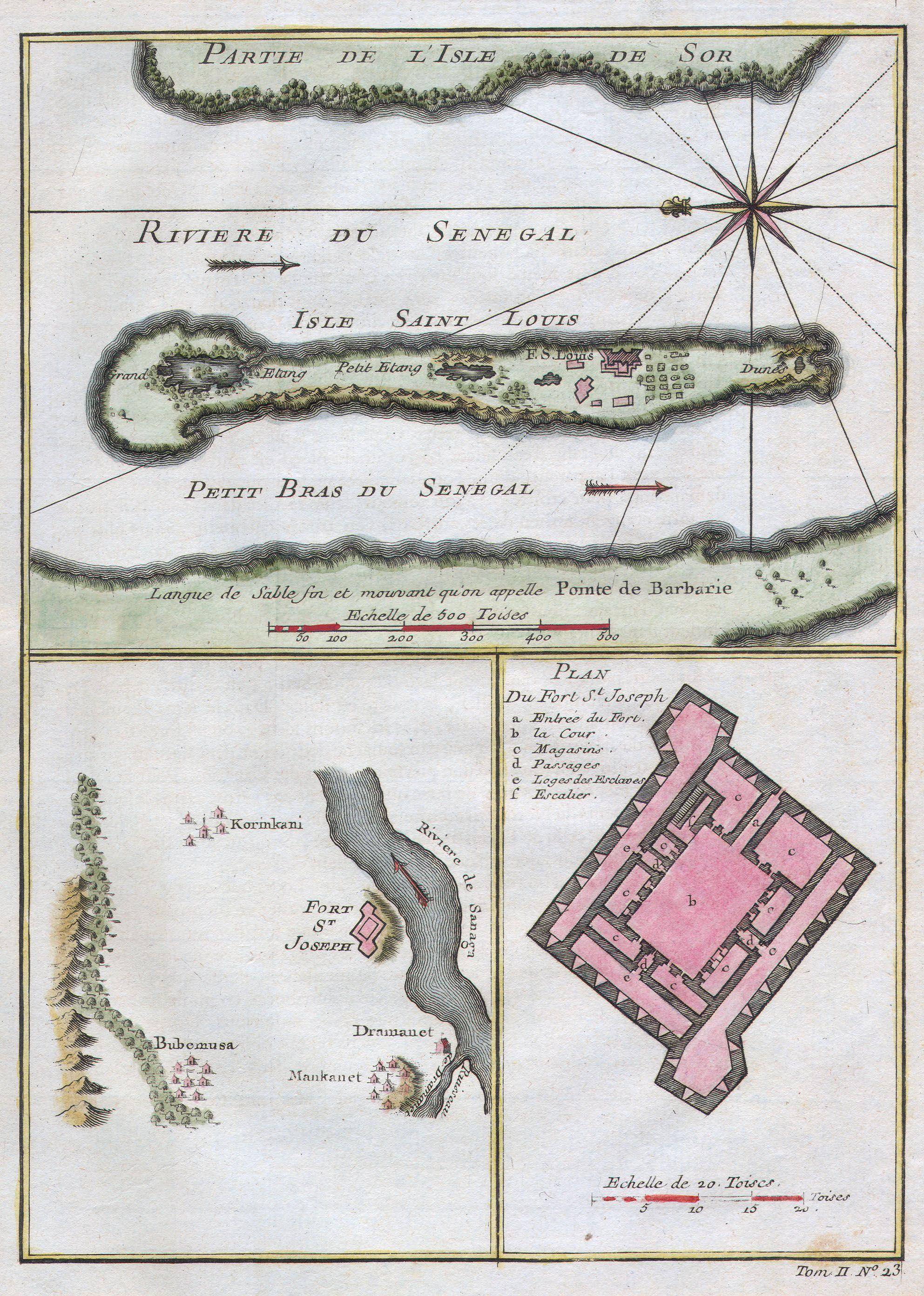 This stunning 1747 nautical chart by French mapmaker J. C. Bellin, the Elder depicts the Senegal River and the area surrounding Fort St. Joseph & Fort St. Louis. This region was part of the Senegambia & the Company of the Indies Senegal Concession. It was from this port that the French company shipped hundreds of African slaves to its colonies in Louisiana. Today the Senegal River forms the important border between Senegal and Mauritania. This beautiful map depicts individual buildings, trees, and even tiny villages. There is a detailed plan of Fort St. Joseph..